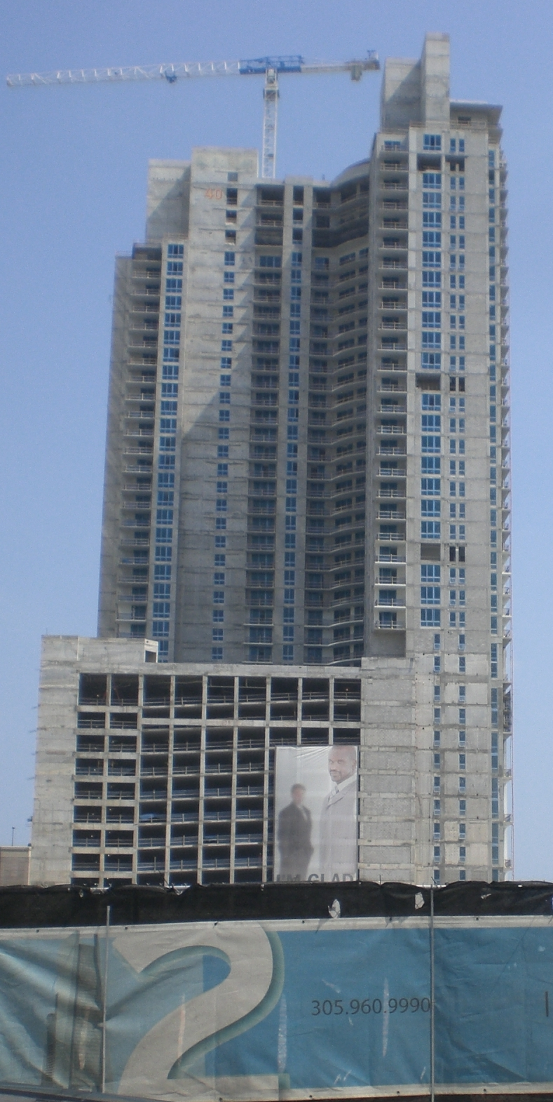 Digital photo taken by Marc Averette. Metropolitan Miami Tower #1 near finishing construction 3/2/2007.